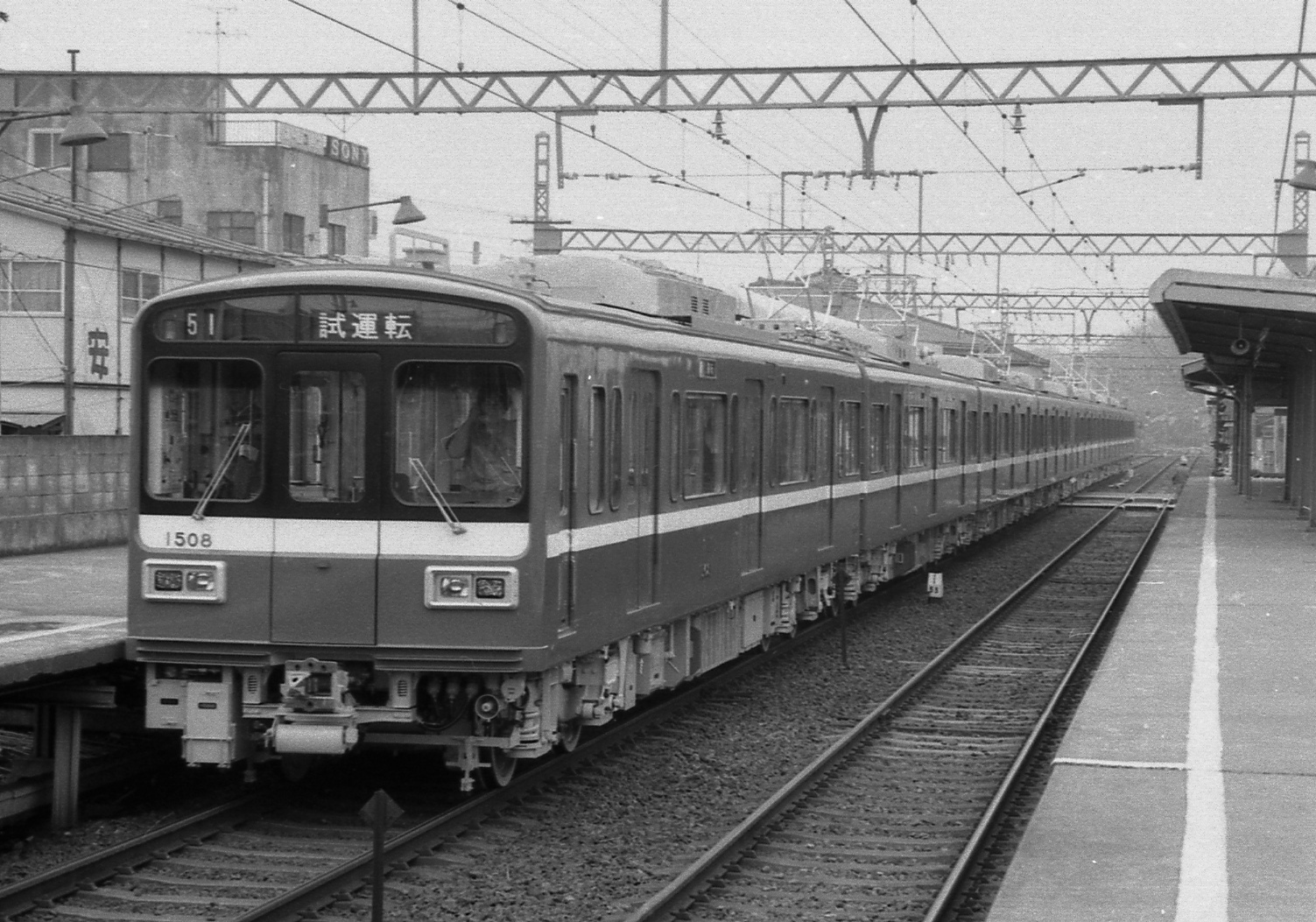 Keikyu 1501+1505 at Keihin Otsu Station (the present: Keikyu Otsu Station)